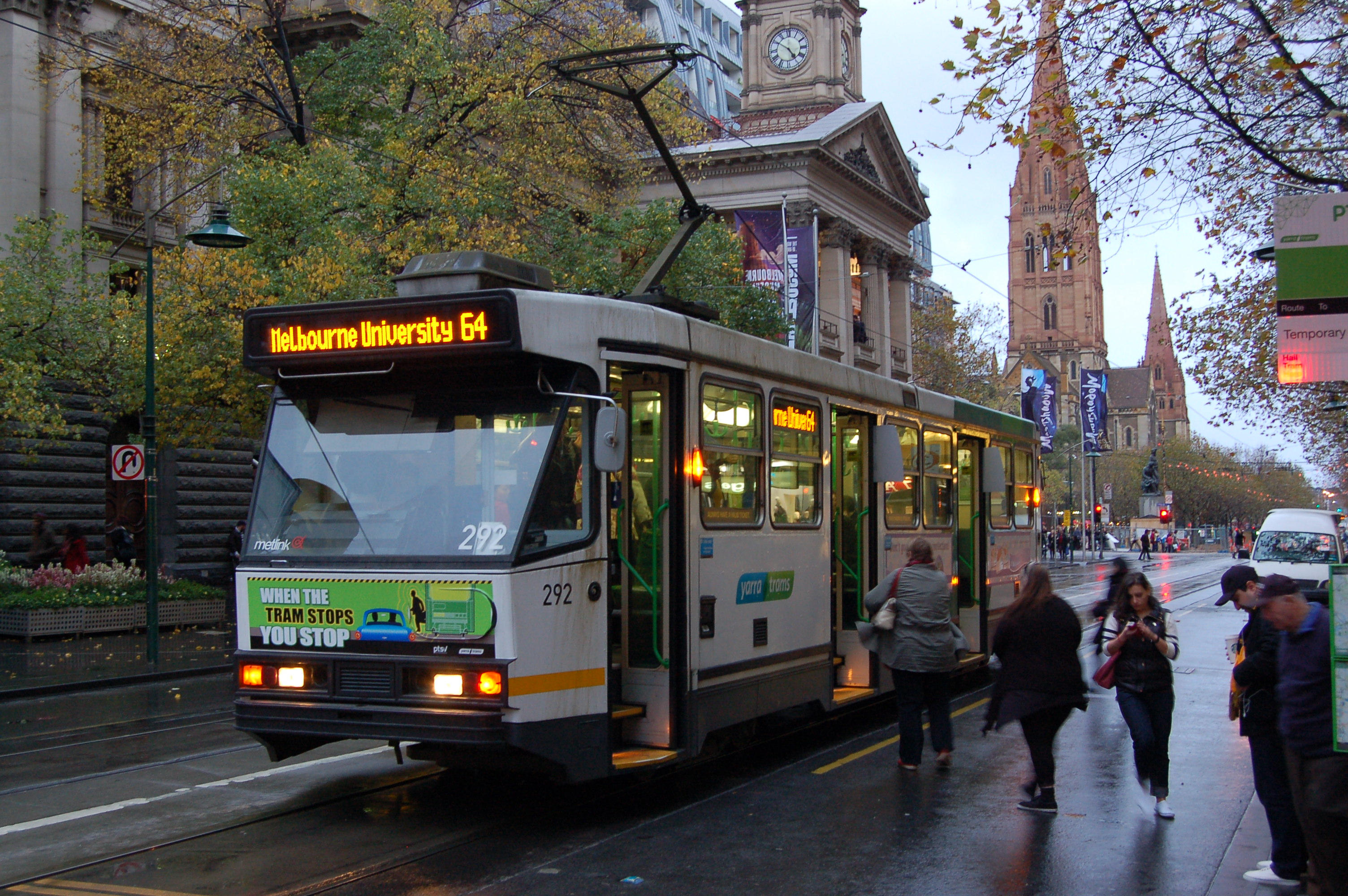 A2 class tram no 292 operating a northbound route 64 service from East Brighton to Melbourne University along Swanston Street, Melbourne, Australia. The tram is embarking passengers just south of the intersection between Swanston Street and Little Collins Street, with the Melbourne Town Hall and St Paul's Cathedral in the background.